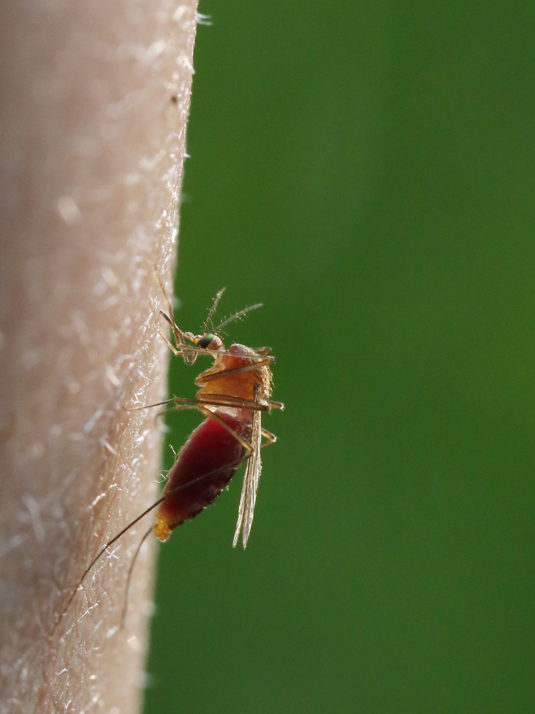 Phylum: Arthropoda - Arthropods Subphylum: Hexapoda BLAINVILLE, 1816 Class: Insecta (insects, Insekten) Subclass: Pterygota Infraclass: Neoptera MARTYNOV, 1923 Order: Diptera LINNAEUS, 1758 (true flies, mosquitoes and gnats) Suborder: Nematocera BERTHOLD, 1827 Infraorder: Culicomorpha HENNIG, 1948 Superfamily: Culicoidea MALLOCH, 1917 Family: Culicidae STEPHENS, 1829 (mosquitoes, Stechmücken) Subfamily: Culicinae Tribus: Culicini Genus: Culex Subgenus: Culex LINNAEUS, 1758 Culex pipiens LINNAEUS, 1758 (Northern House Mosquito, Nördliche Hausmücke) Germany, Hesse, vic. Kassel: Dennhausen (Fulda), 25.07.2013 IMG_2078